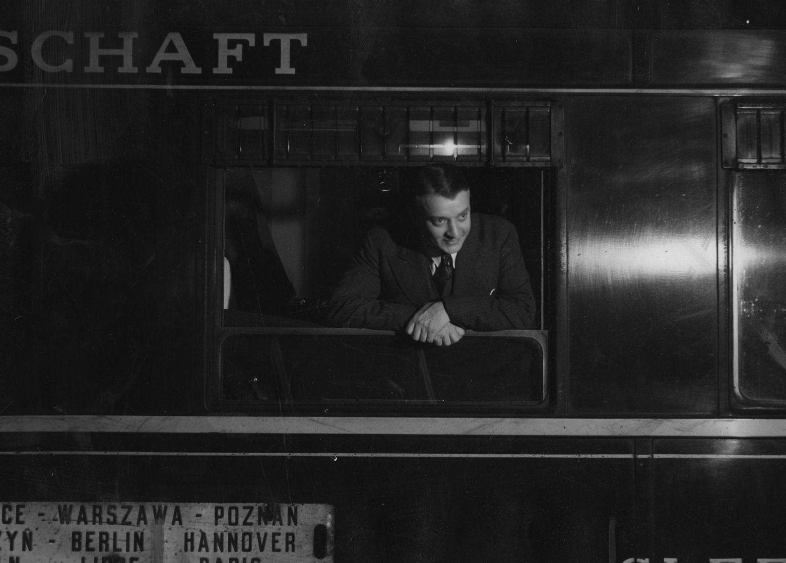 Mikhail Tukhachevsky (1893-1937). Marshal of the Soviet Union. Here at the Warsaw Railway Station, on route to London 1936-01-25